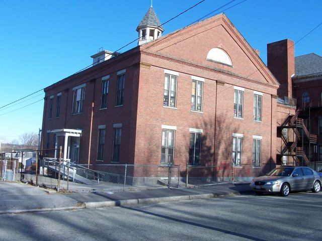 The original (1850s) section of the Varnum School. Located on 103 Sixth Street, Lowell, Massachusetts